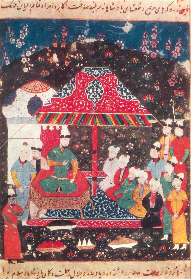 Gazan-Khan gives a feast for the notables in his tent in Urjann